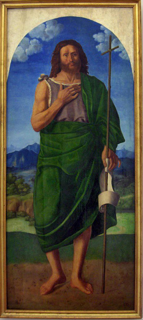 Saint John the Baptist